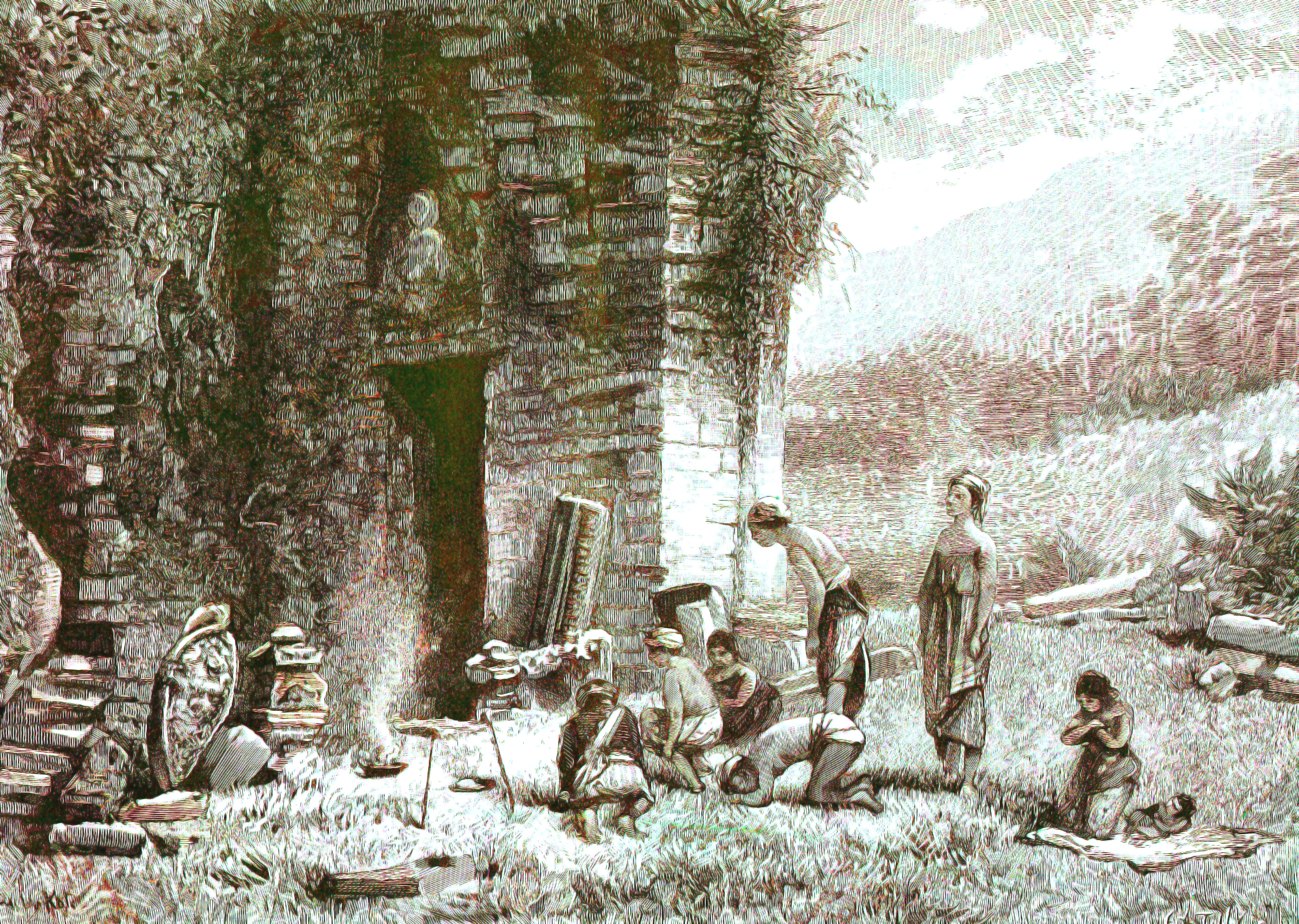 Offerende Javanen